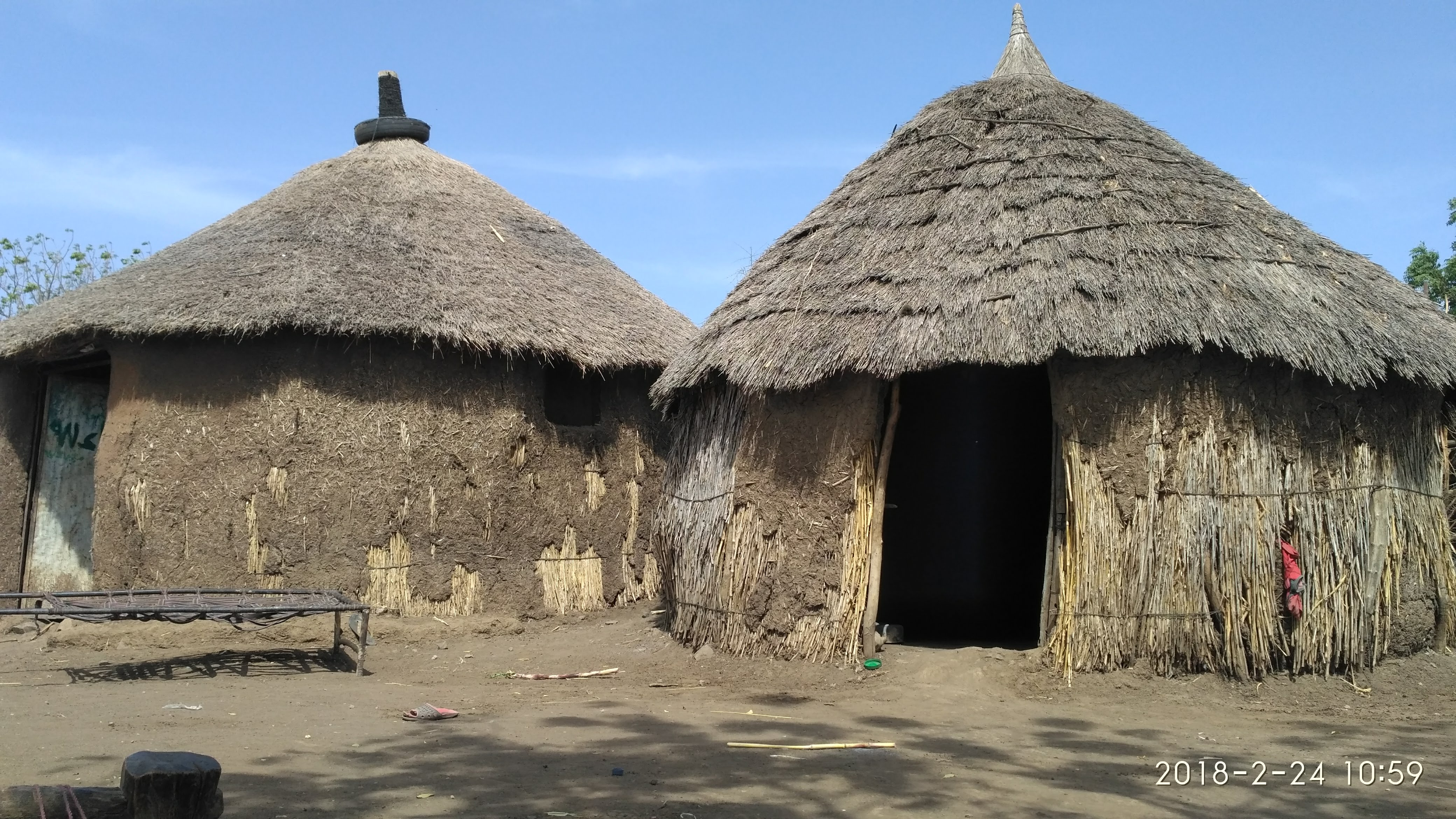 traditional rooms in south and east sudan This is an image with the theme "Africa on the Move or Transport" from: Sudan